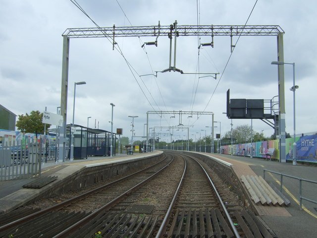 Looking north west from the level crossing on Hythe Station Road.